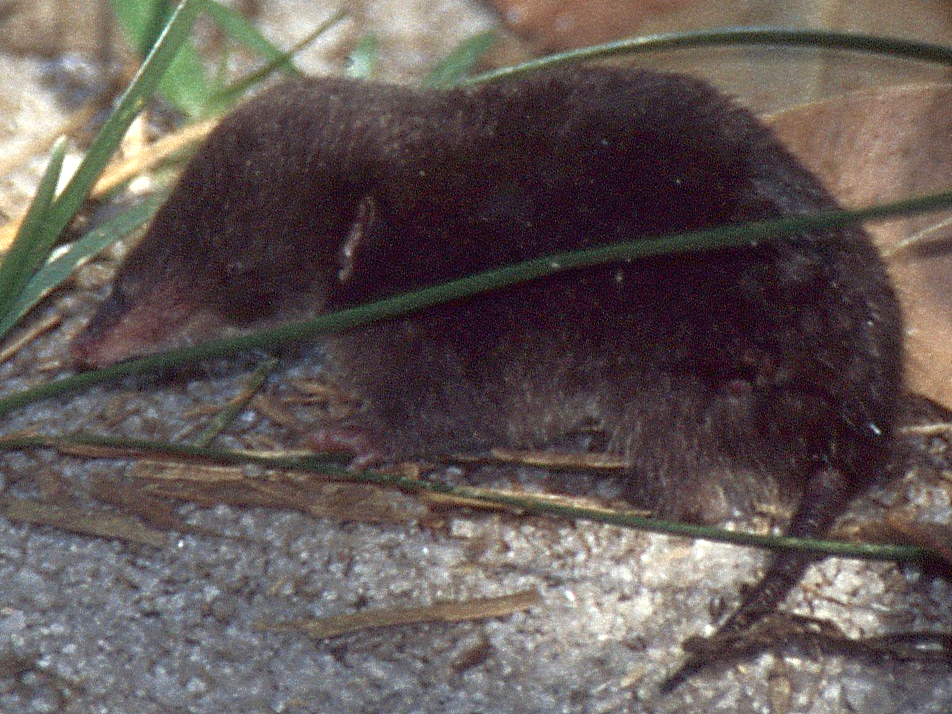 Arboretum, Analamazaotra Special Reserve, Andasibe-Mantadia National Park, MADAGASCAR Scanned Slide from November 1999